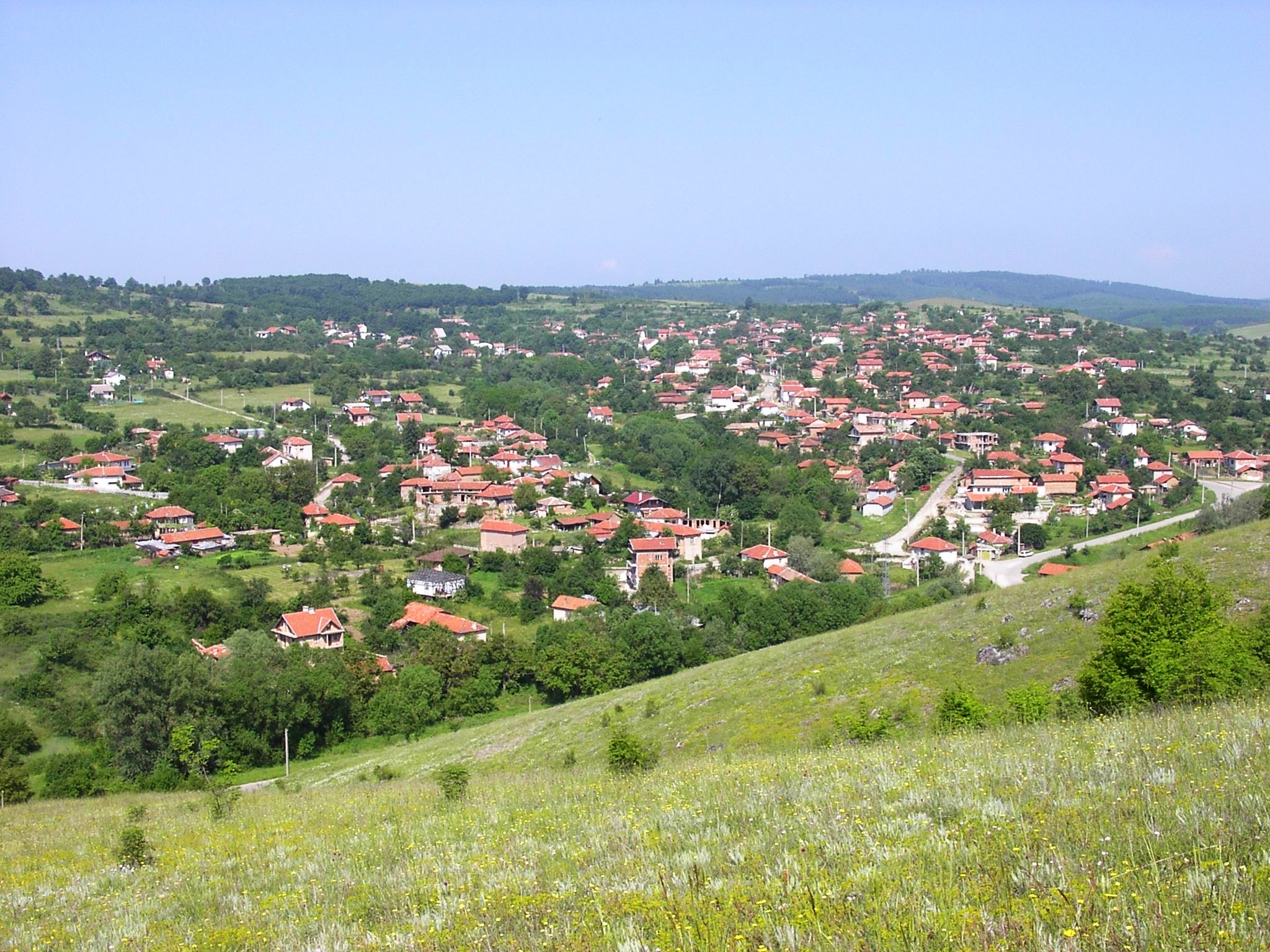 s.Ostra Mogila-general view 01